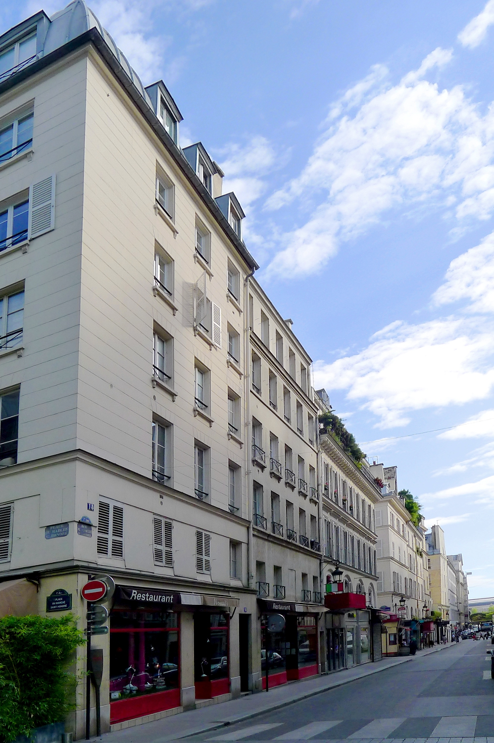 Marché Saint-Honoré street - Paris